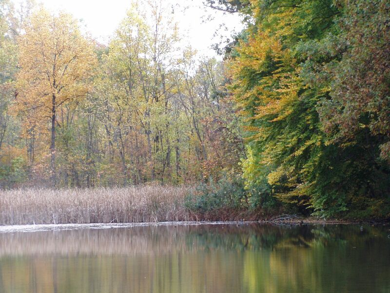 Fernwood Botanical Gardens (Niles-Buchanan), Michigan